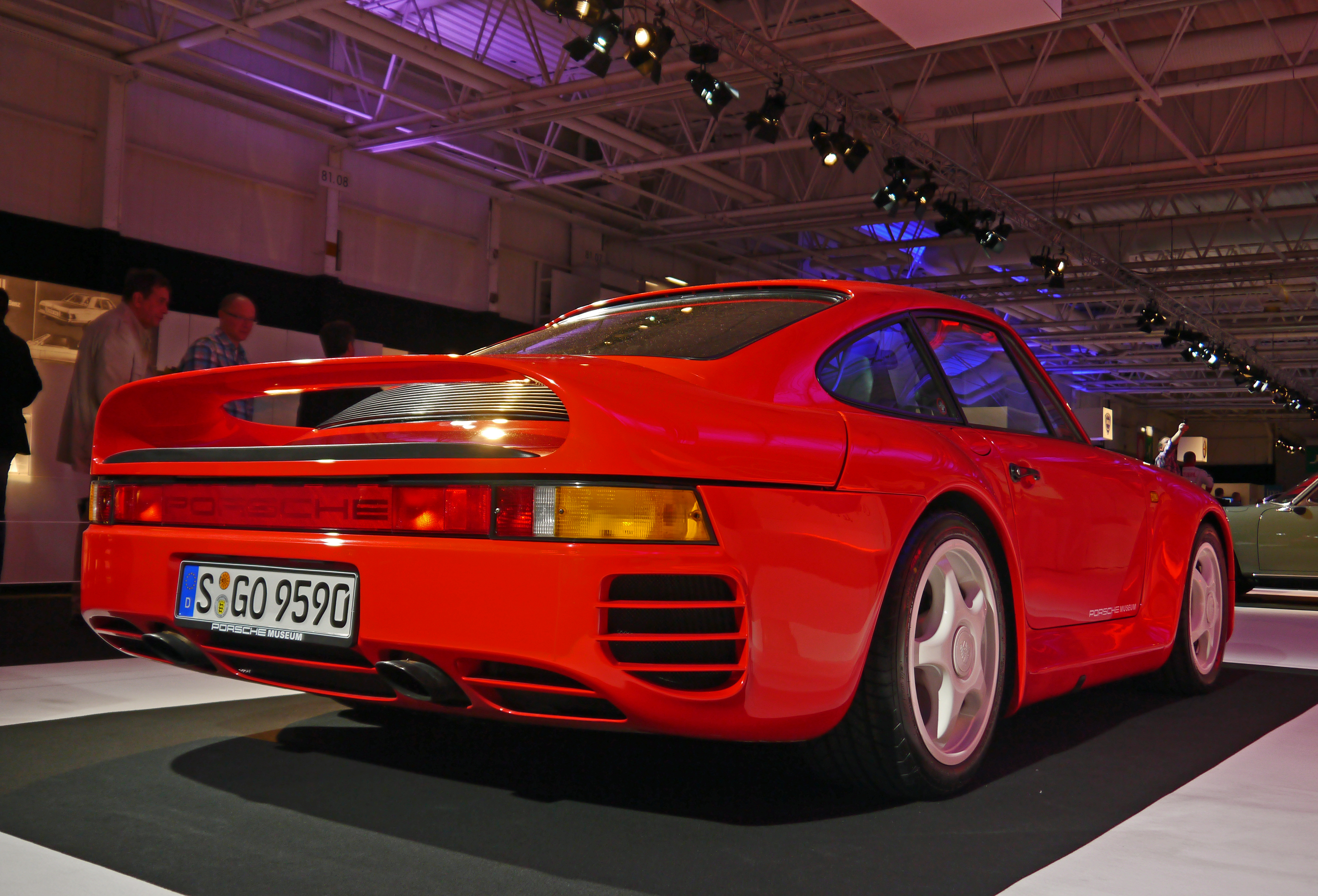 1988 Porsche 959 coupé - Only 292 produced. 6-cylinder 2849 cc boxer turbo engine (331 kW; 450 bhp) - Top Speed: 315 Km/h.